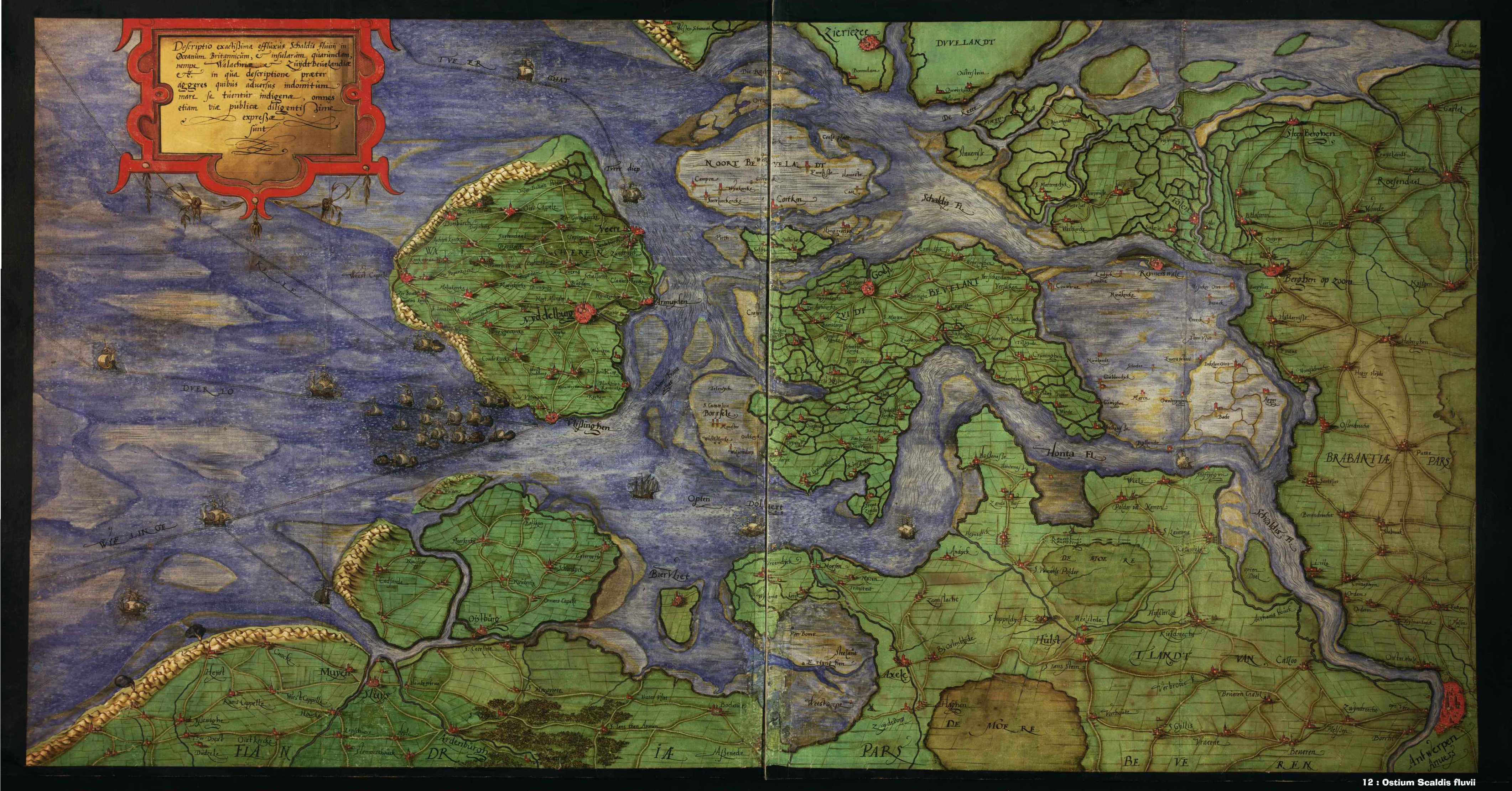 Title: 12: Ostium Scaldis fluvii cum insulis quas efficit Size: 58 x 112 cm sur f. 60,7 x 120,8 cm